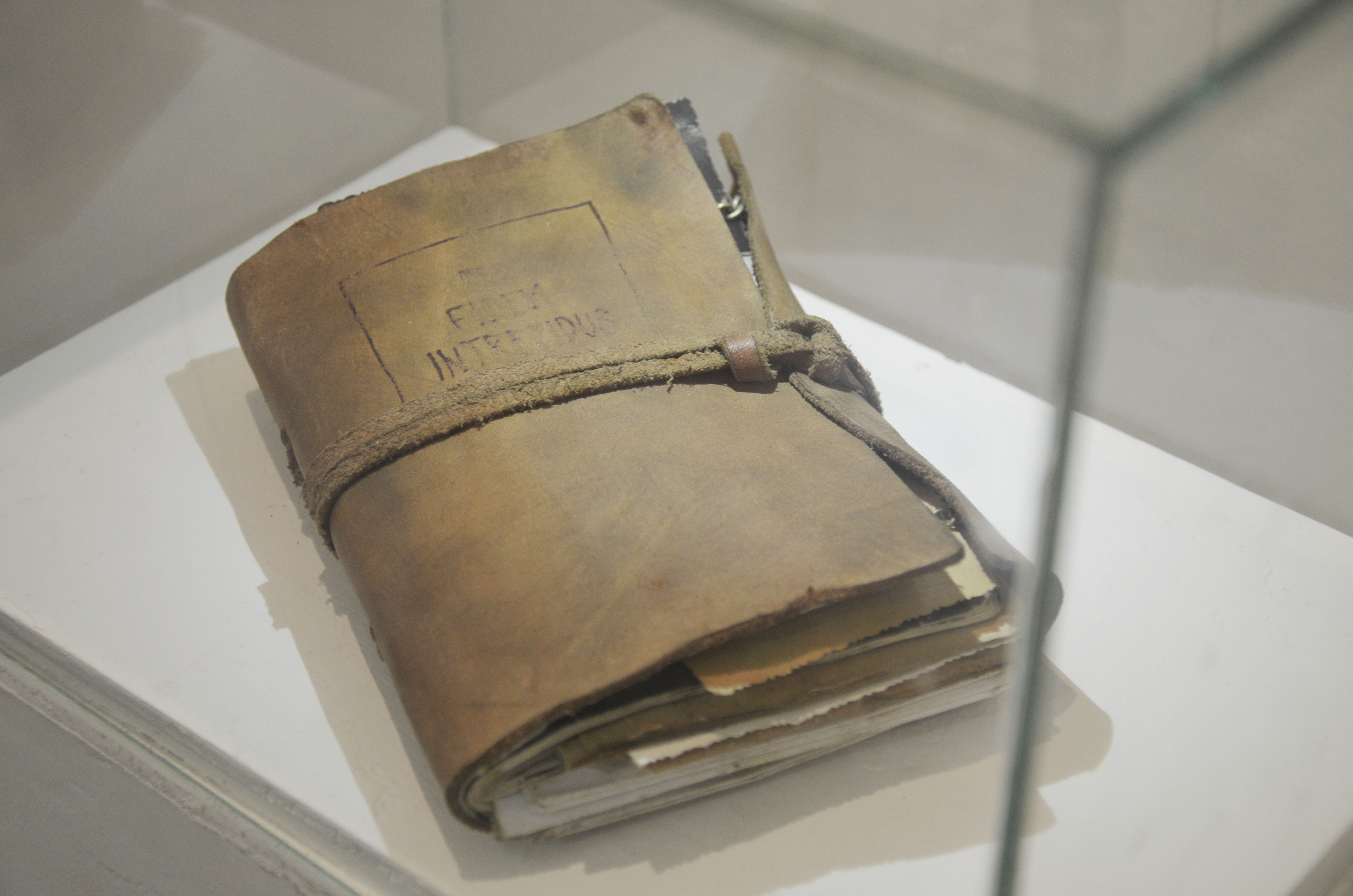 Ludwig Stern's travelogue which consist of his poems and manuscripts on his journey to Tanah Runcuk at mid 19th century. Collection of Centre for Tanah Runcuk Studies.